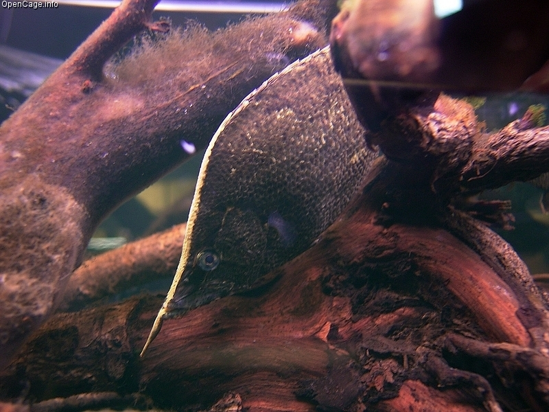 An Amazon leaffish (Monocirrhus polyacanthus) in Suma Aqualife Park, in Kobe (Japan). Common names: jp:リーフフィッシュ; Leaffish Scientific name: Monocirrhus polyacanthus